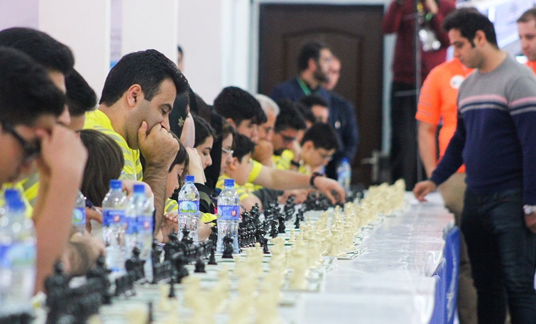 Grandmaster Ehsan Ghaem-Maghami giving a simultaneous exhibition, Sanchi Martyrs Memorial at Passenger Terminal Hall of the Ports and Marine Administration of Guilan Province, Rasht - 19 April 2018main album